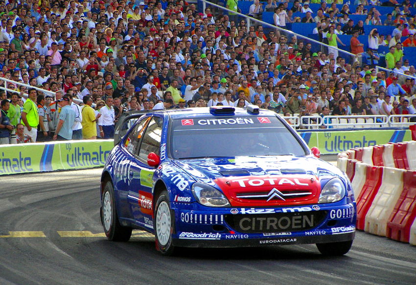 Xavier Pons driving his Citroën Xsara WRC at the 2006 Acropolis Rally.